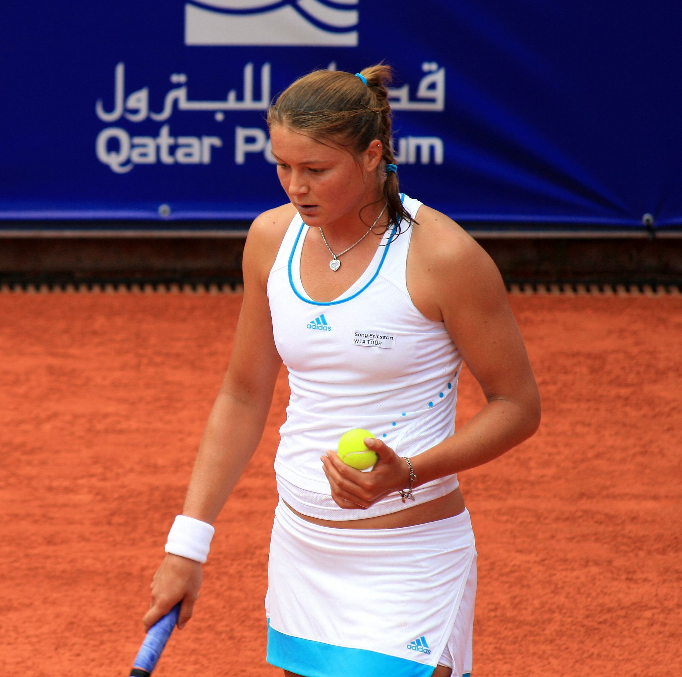 Dinara Safina at the final of German Open 2008